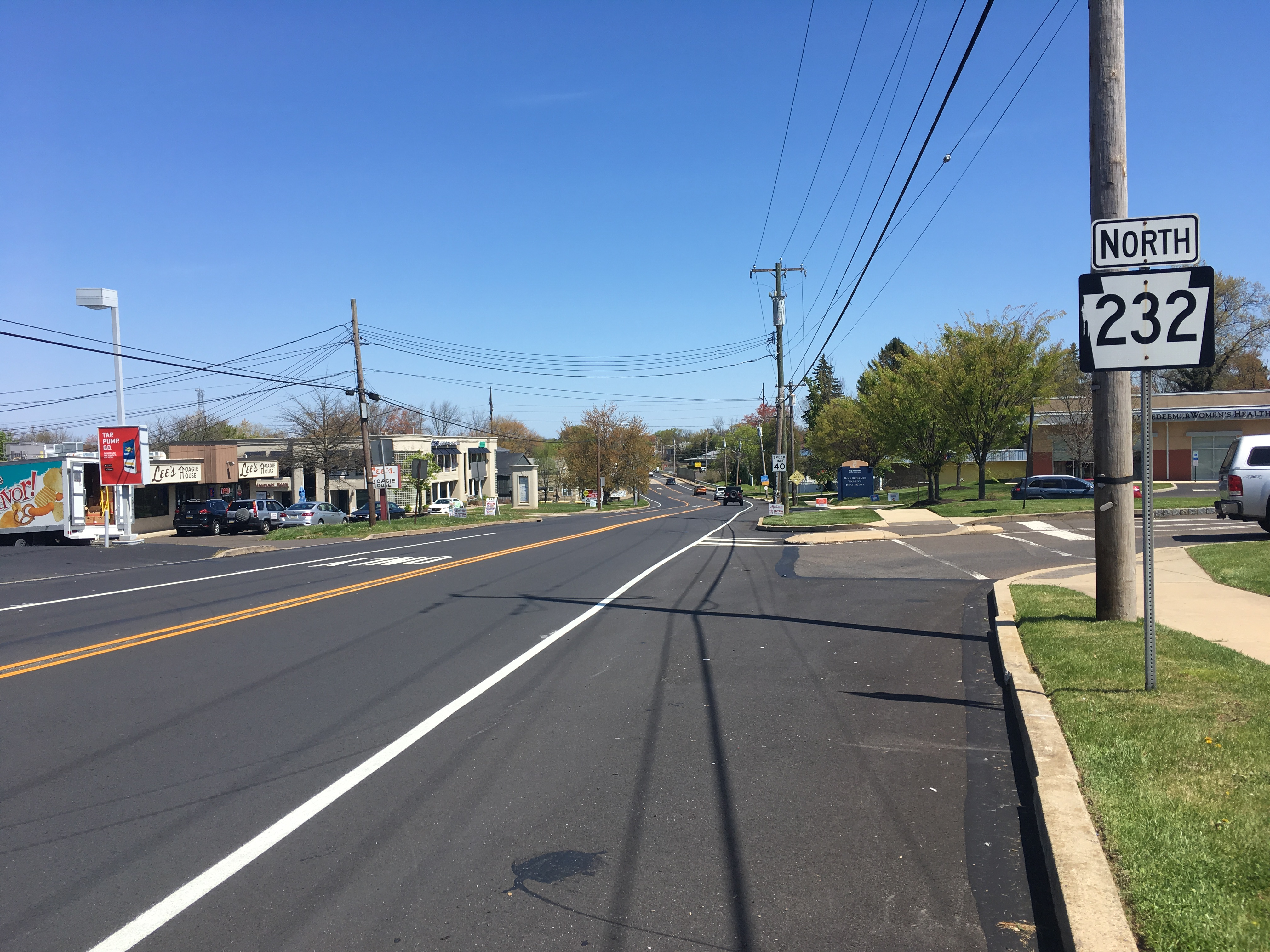 Northbound Pennsylvania Route 232 (Second Street Pike) past the intersection with County Line Road in Upper Southampton Township, Pennsylvania